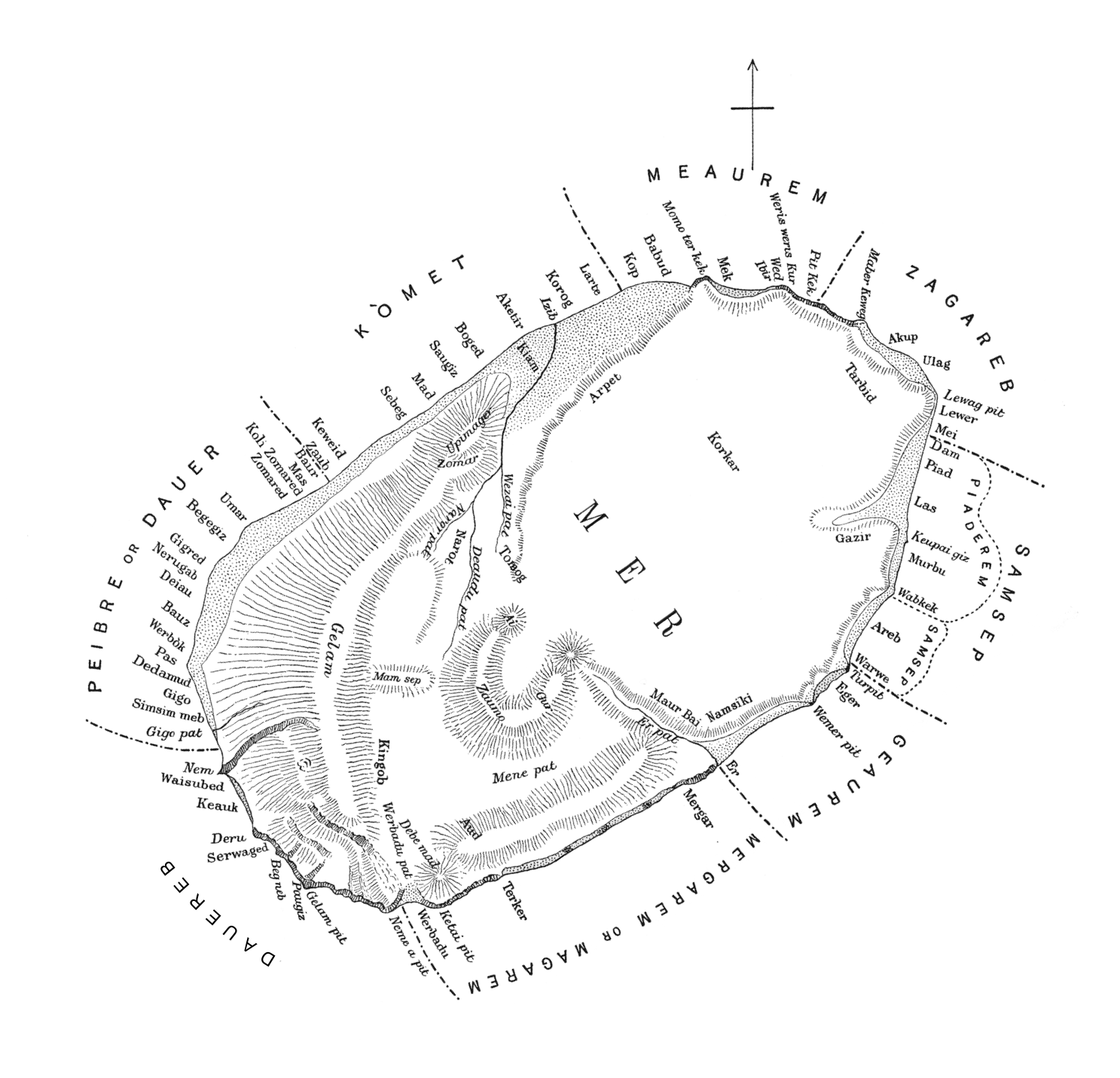 map of Murray Island (Mer), Torres Strait Islands, Queensland, Australia